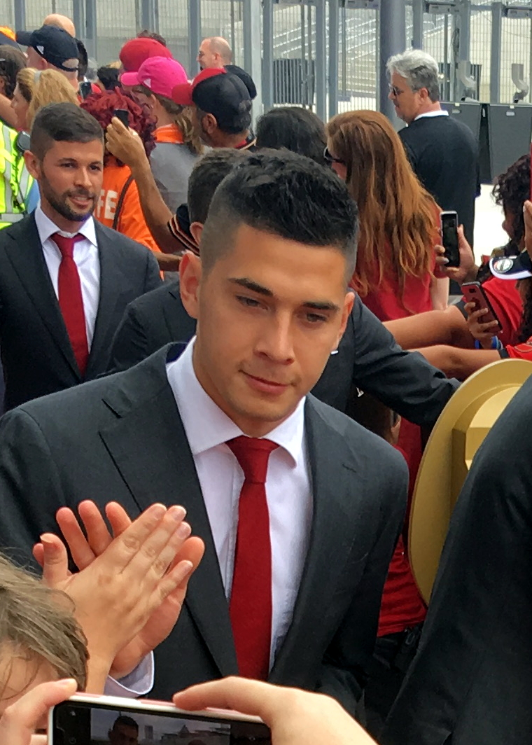 Franco Escobar after signing the Golden Spike for Atlanta United on August 19, 2018